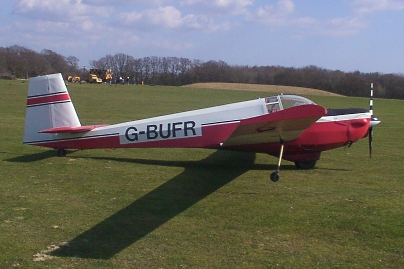 G-BUFR a Slingsby T61 Venture T2 at Ringmer, England